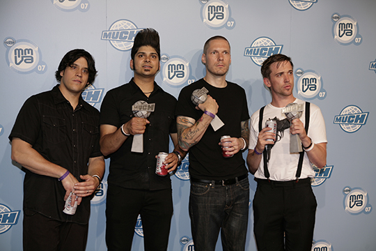 Billy Talent was an attendee at the 2007 MuchMusic Video Awards, held the night of Sunday, June 17, 2007 in Toronto, Ontario, Canada.